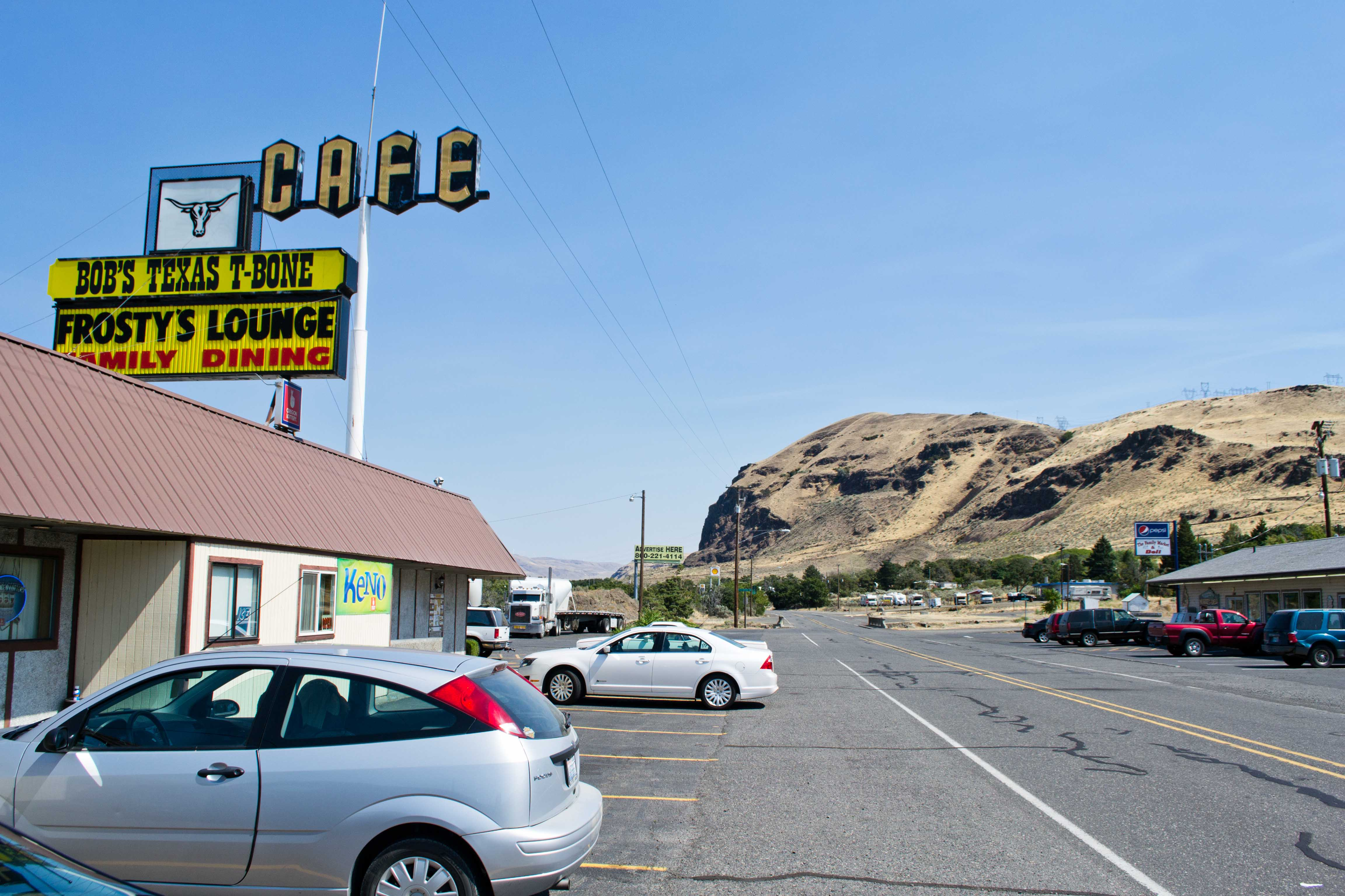 Rufus, Oregon, looking east along Old Highway 30.